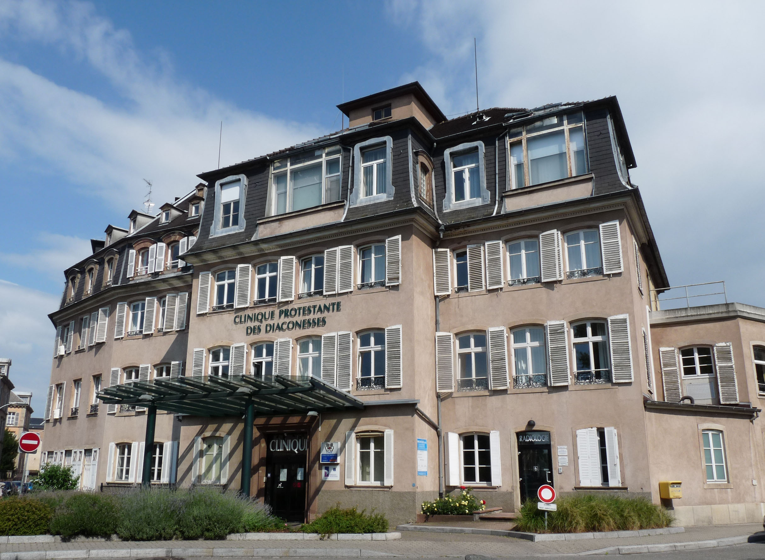 Protestant Clinic of the Deaconesses, Strasbourg